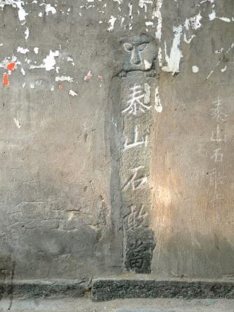 A Mount Tai Shigandang in Dongsi Santiao, Beijing